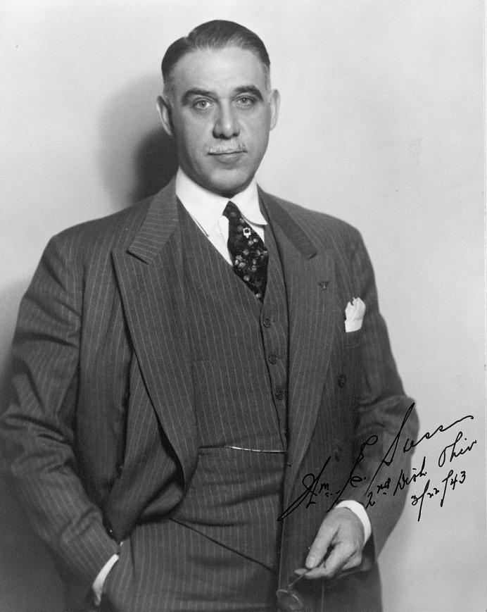 William E. Hess, Republican representative from Ohio, three-quarter length portrait. Photograph is autographed by Hess.